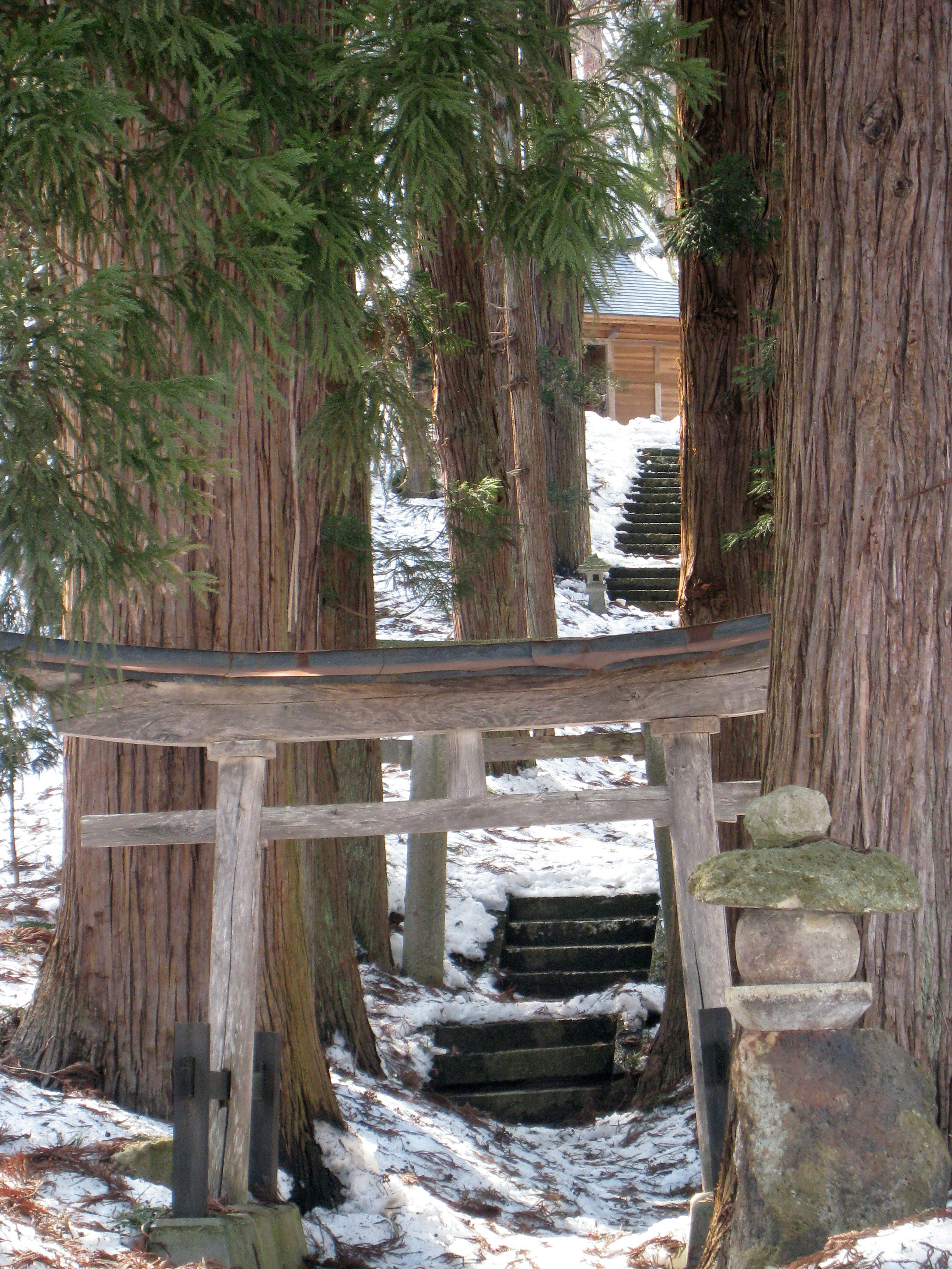 Torii (shrine gate) at the Inu no Miya shrine in Takataha Town, Yamagata Prefecture, Japan